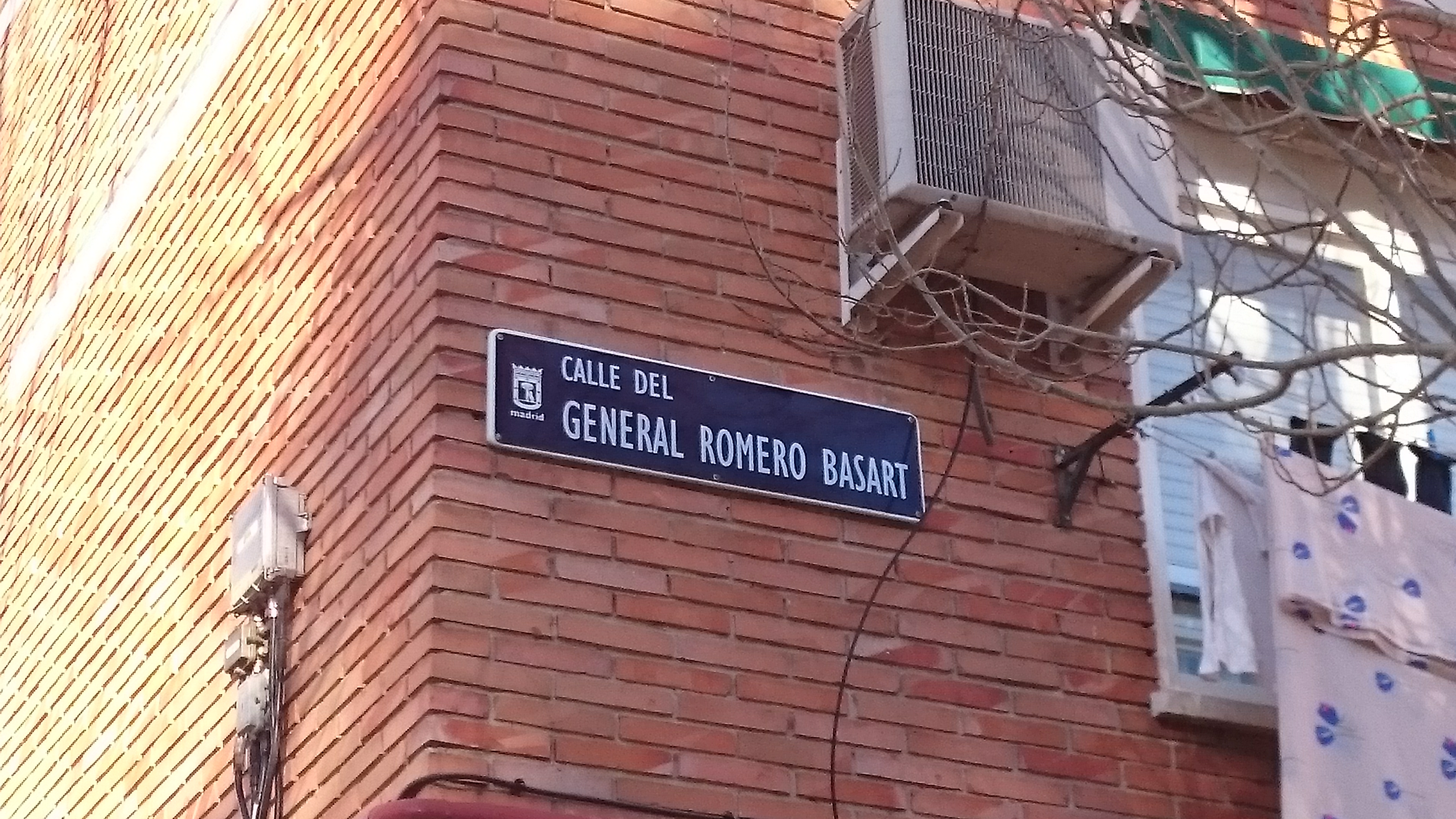 Placa de la calle General Romero Basart en Madrid